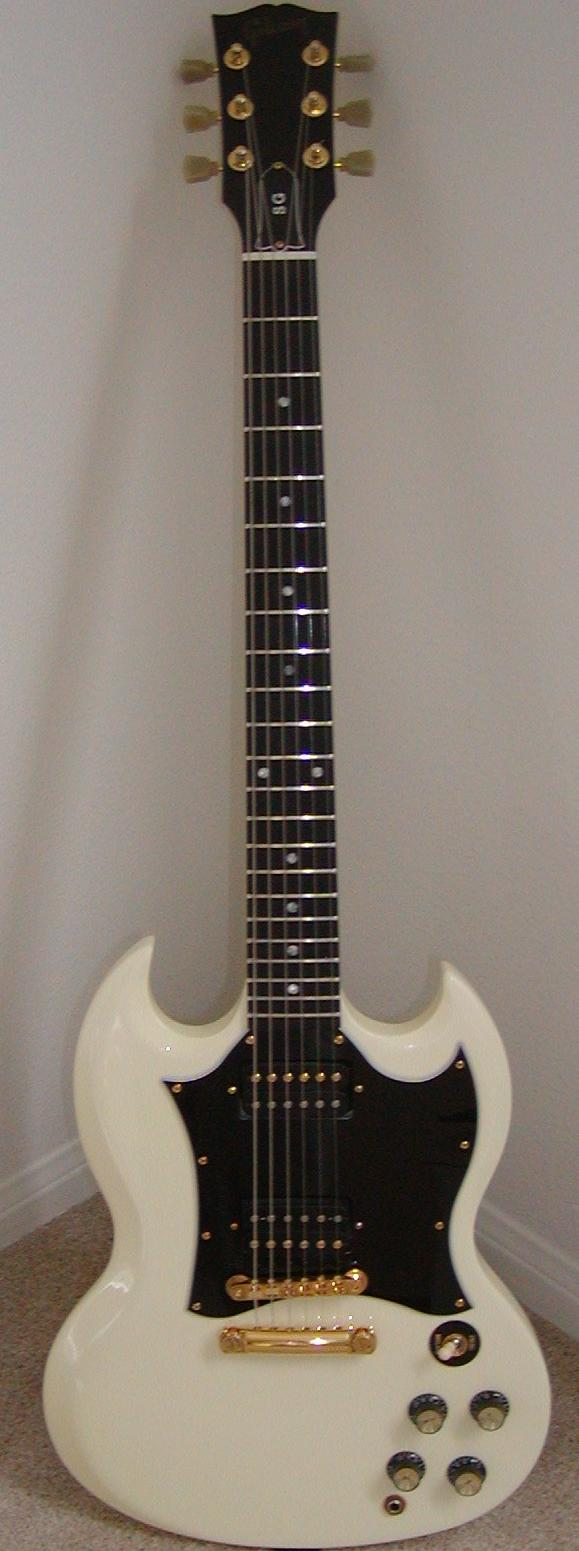 white Gibson SG Special